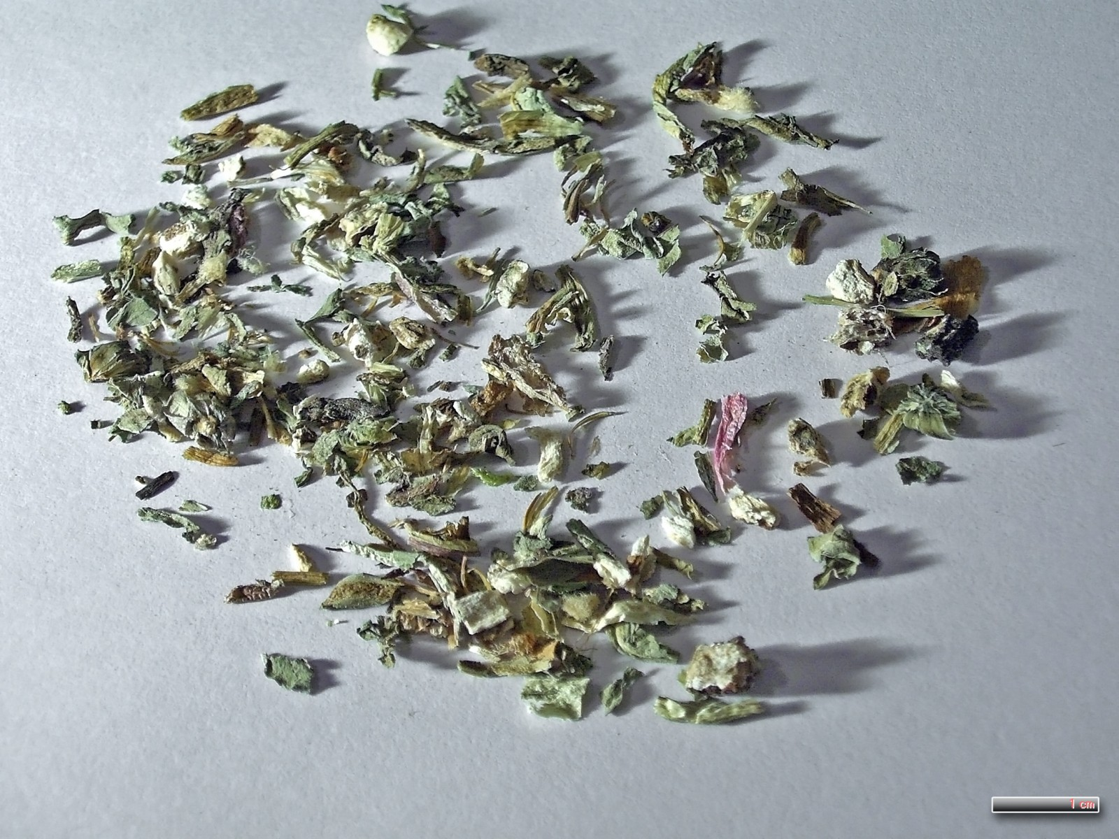 dried Taraxacum officinale, Dandelion; Herb